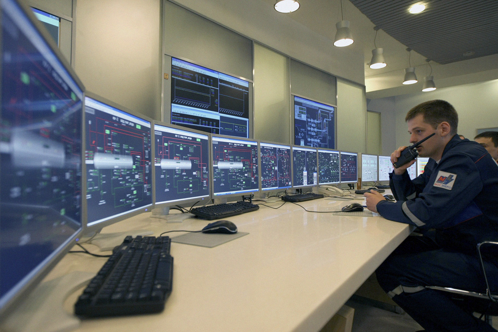 “Control panel”. The control panel of the combined cycle unit №11 PGU-450T at the thermal power station TETs-21 owned by Mosenergo.